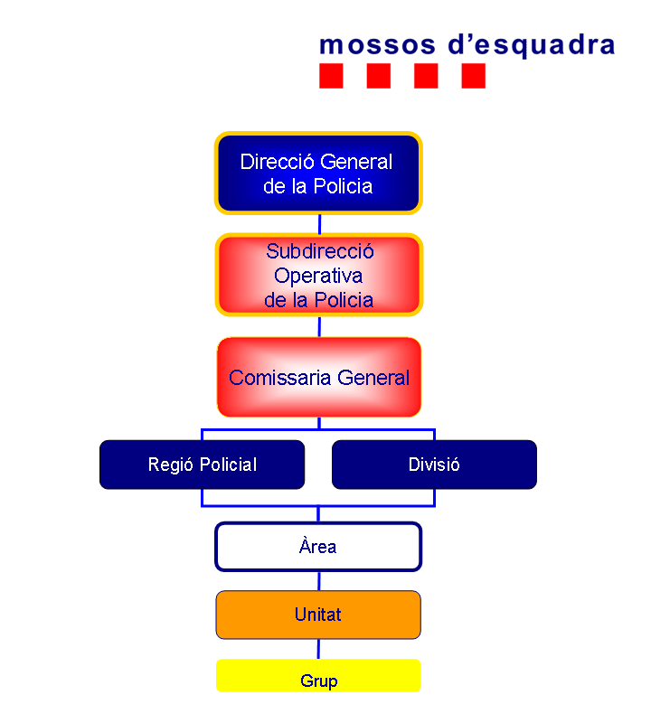 Department ranks of the catalan police Mossos d'Esquadra.